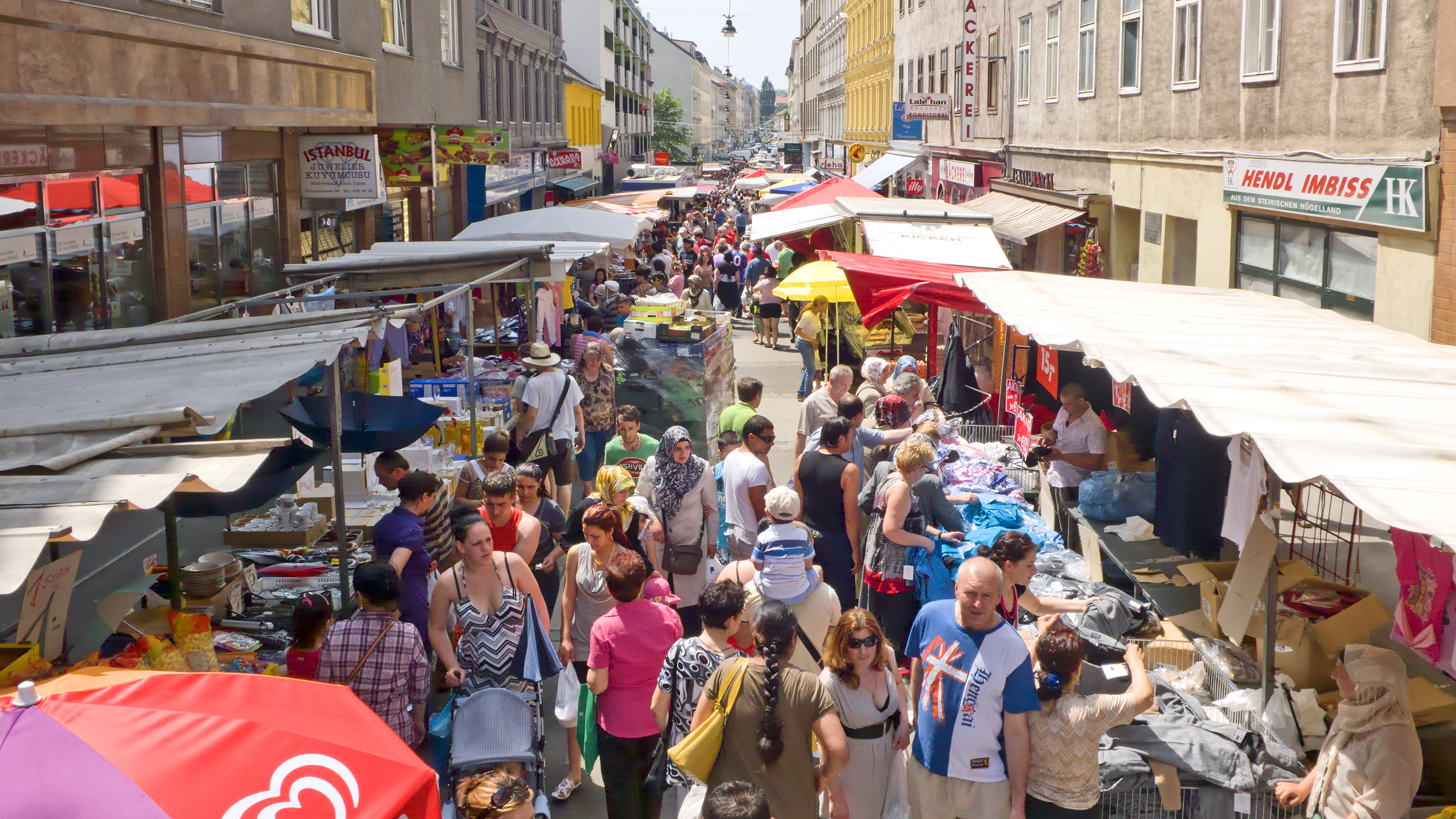 Market place Brunnenmarkt in Vienna Ottakring